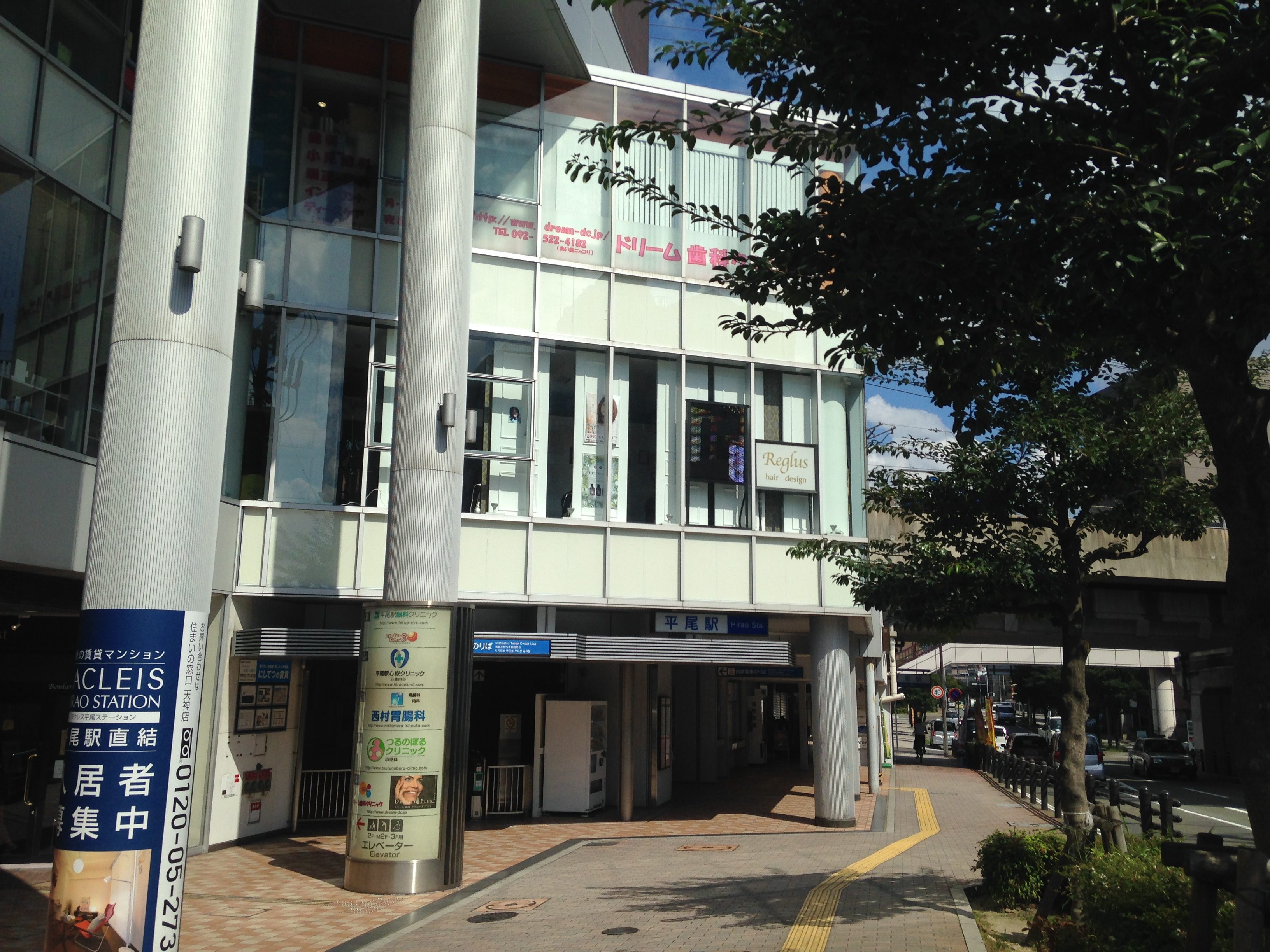 Nishitetsu-Hirao Station